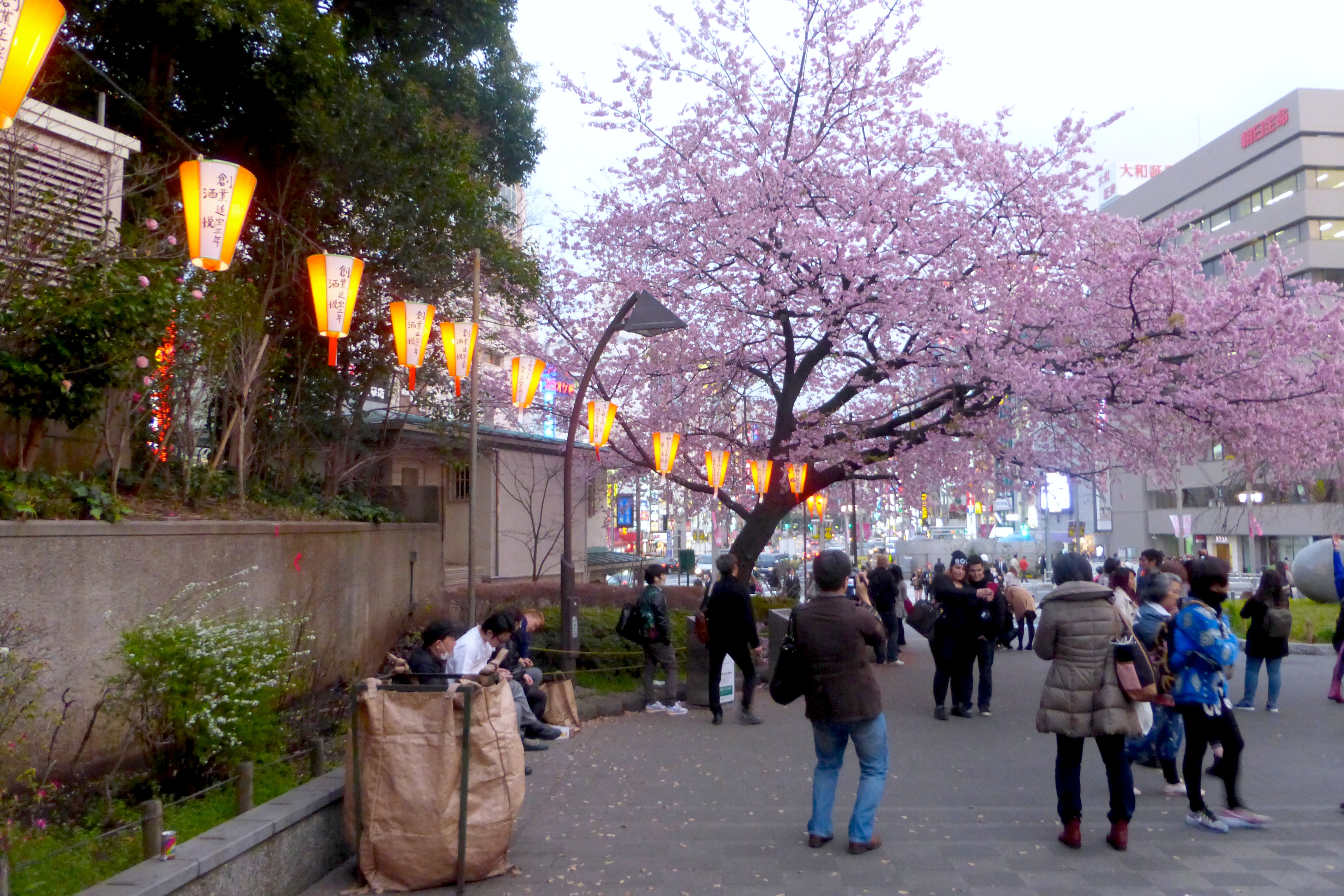 Cherry blossoms (sakura) in Ueno park